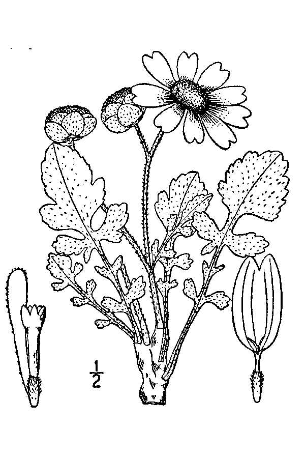 Synonyms for Berlandiera lyrata Benth.: Berlandiera incisa Torr. & A.Gray Berlandiera lyrata Benth. var. macrophylla A.Gray Britton, N.L., and A. Brown. 1913. An illustrated flora of the northern United States, Canada and the British Possessions. Vol. 3: 464.